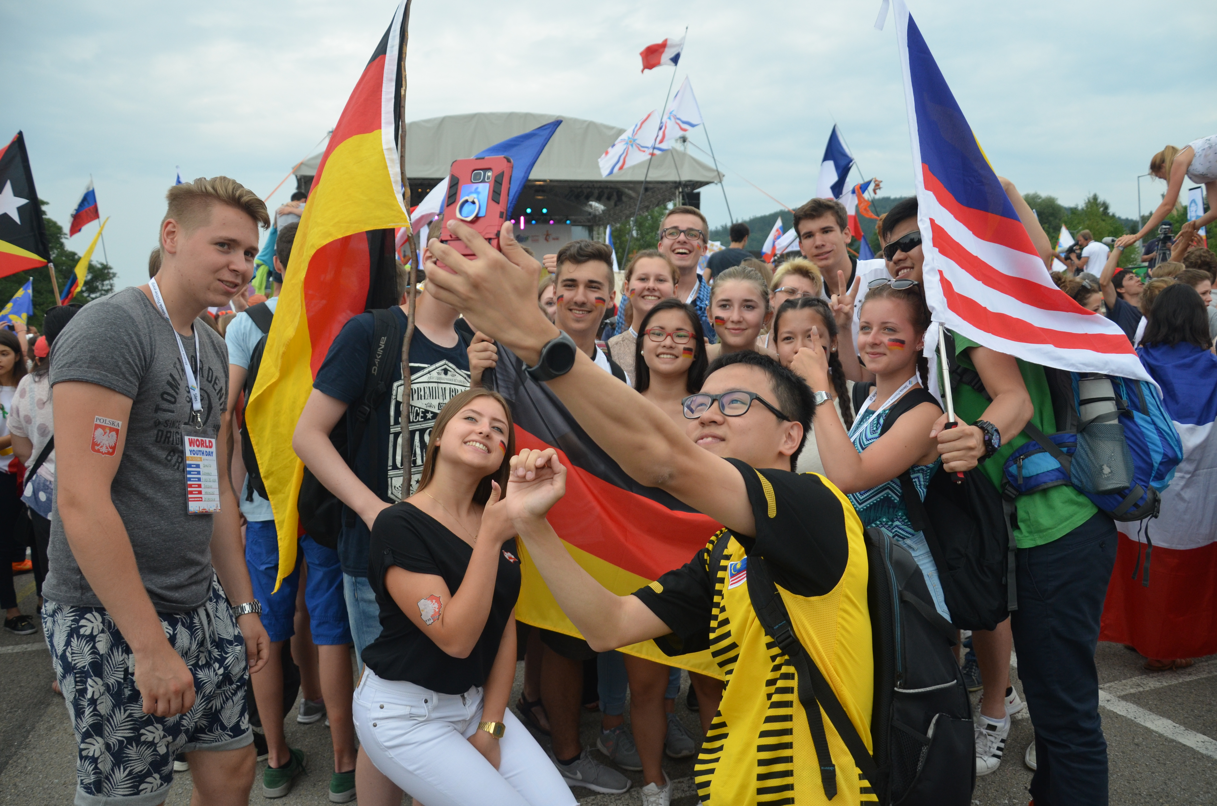 Weltjugendtag 2016 im Bistum Bielitz-Saybusch